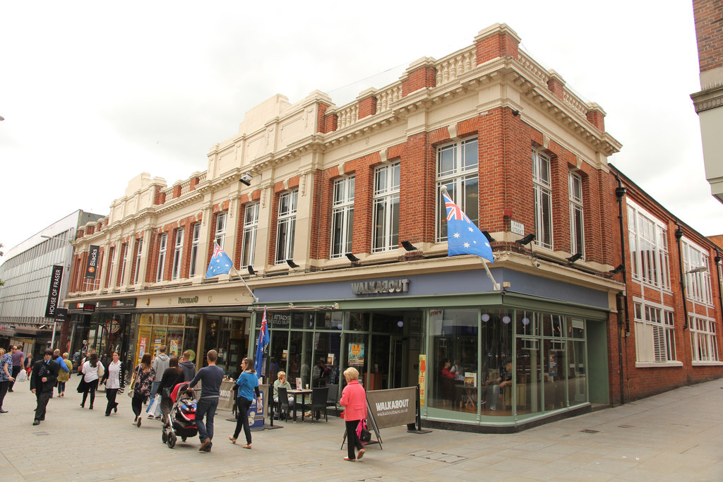 Walkabout